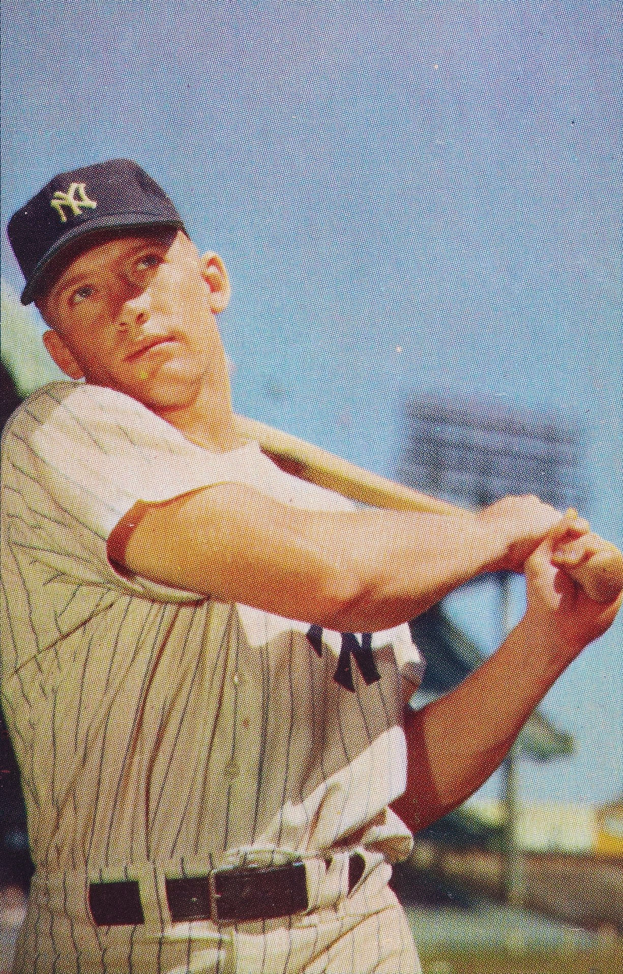 New York Yankees centerfielder and Hall of Famer Mickey Mantle.